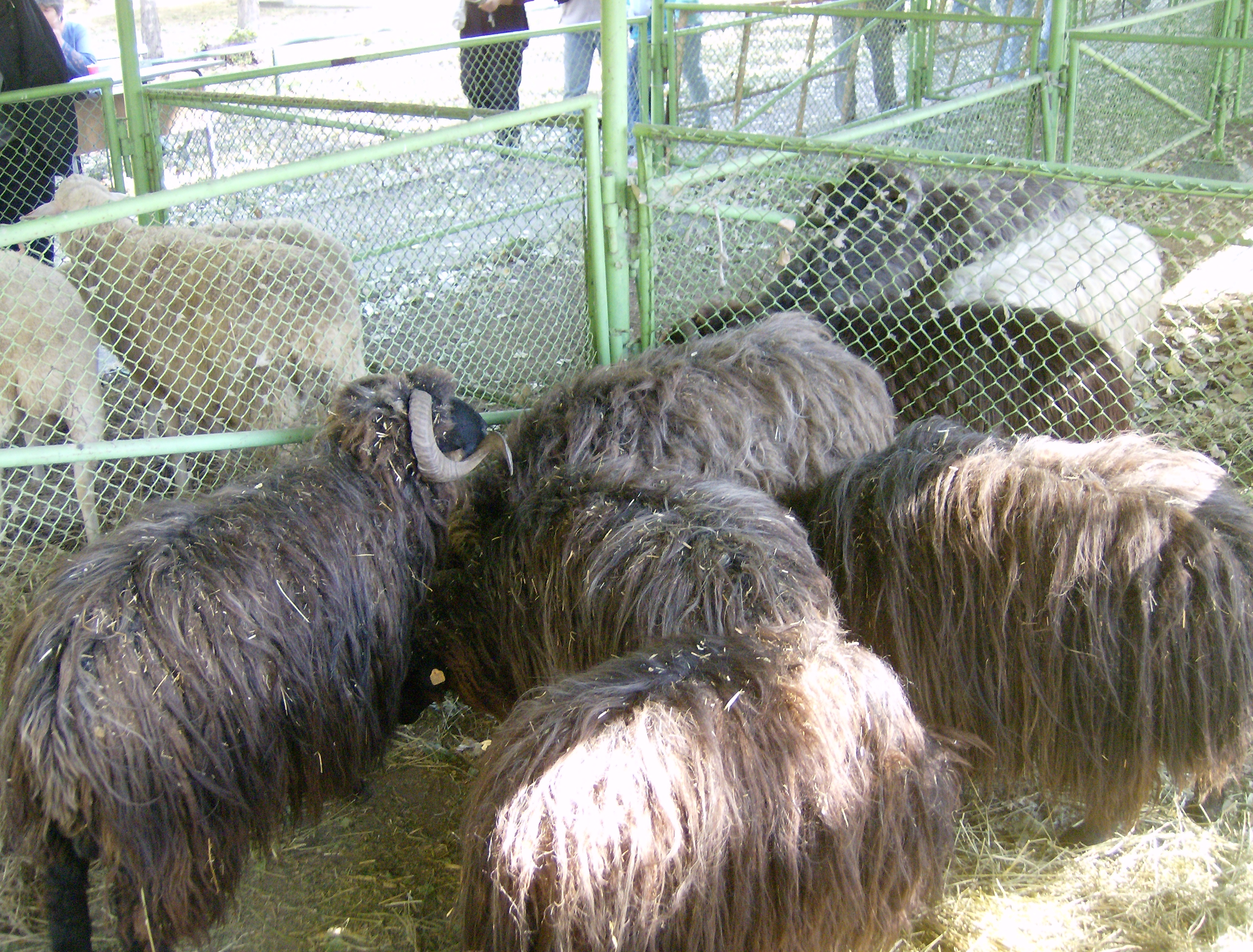 Karakachan Sheep